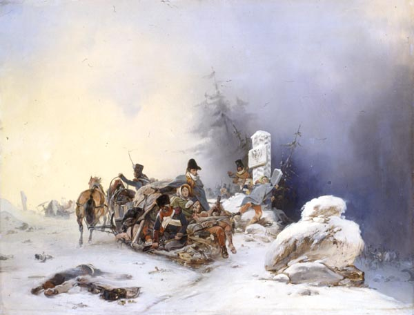 Retreat of french civilians from Russia in 1812 after Napoleon retreat from Moscow